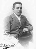 Peyo Garvalov Portrait given to Georgi Kovachev